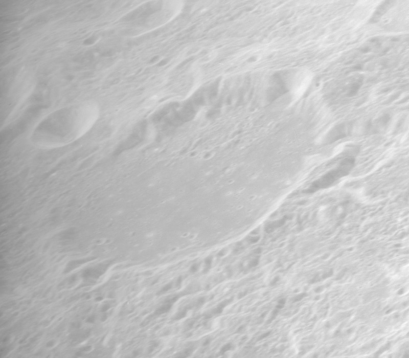 Oblique view of Cannon crater, on the moon. Brightness and contrast adjusted.